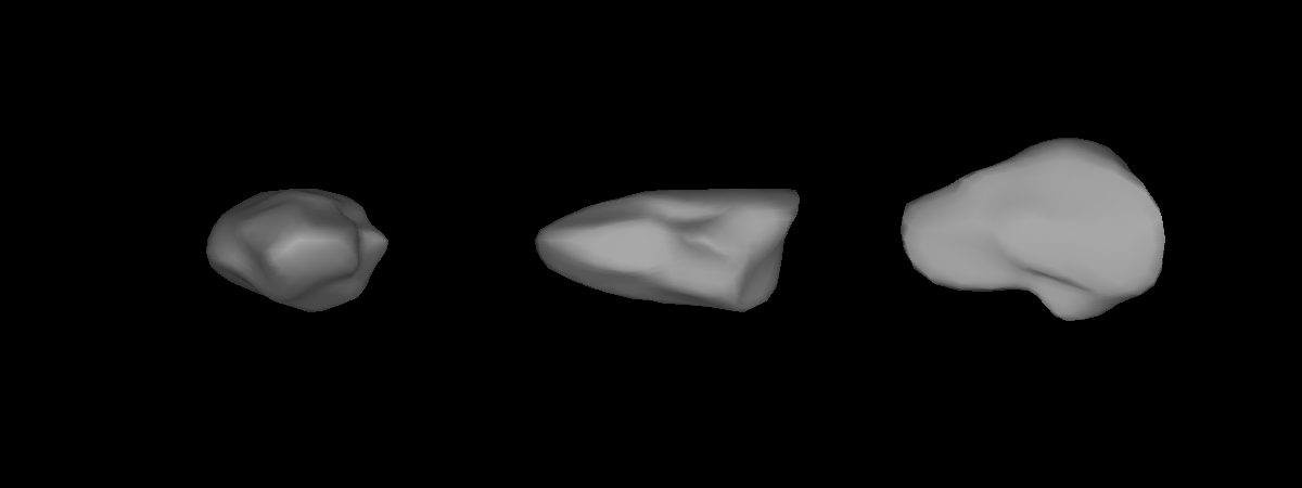 A three-dimensional model of 3103 Eger that was computed using light curve inversion techniques.